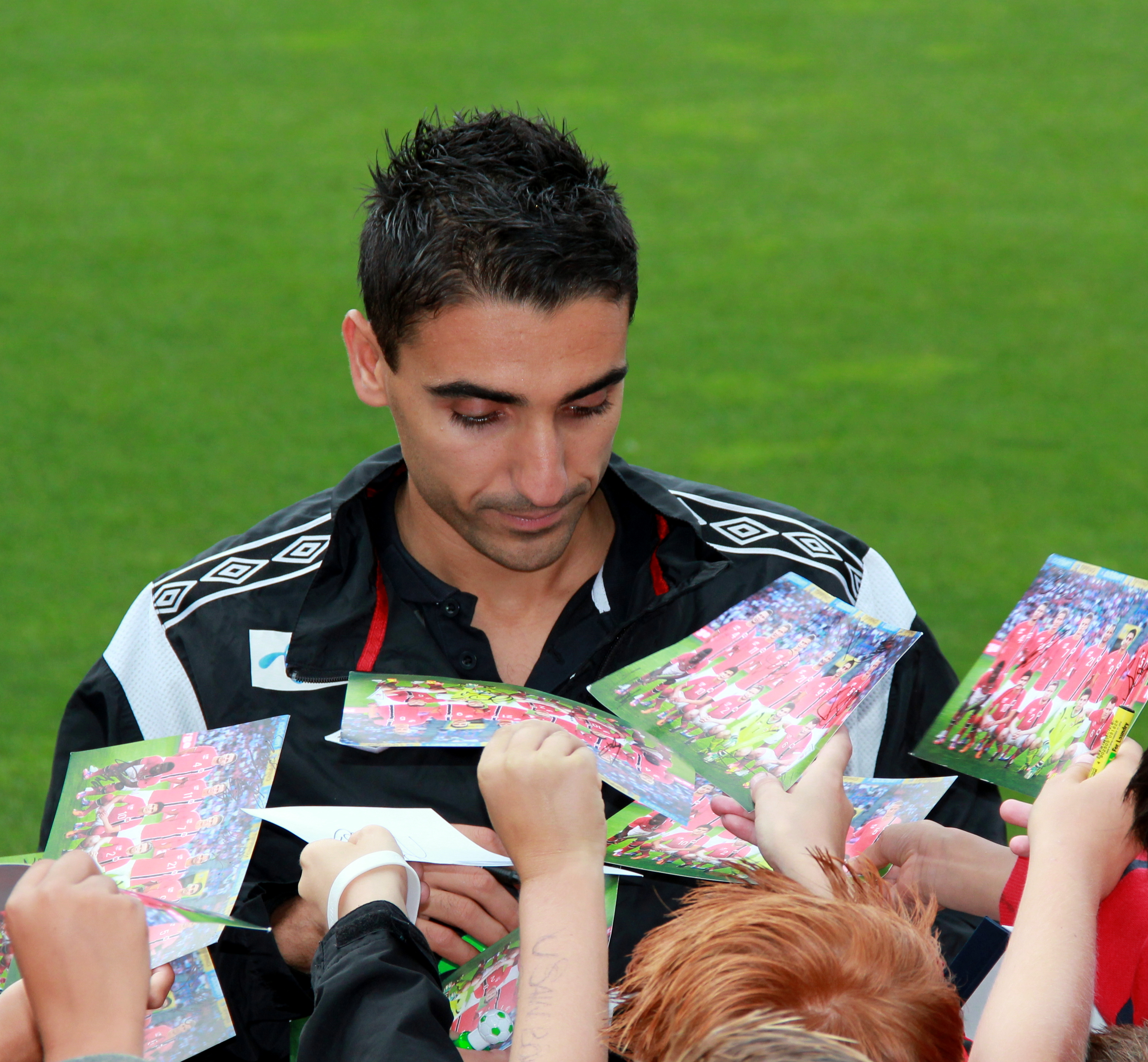 Footballer Mohammed Abdellaoue